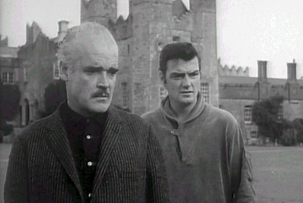 Patrick Magee as Dr. Caleb and William Campbell as Richard Haloran. Screenshot taken from the Roan Group DVD of the film Dementia 13 (1963).